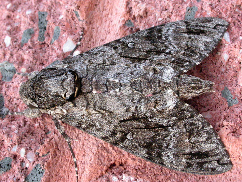 Pink-spotted Hawkmoth, Agrius cingulatus, imago (adult). Location: Durham, North Carolina, United States